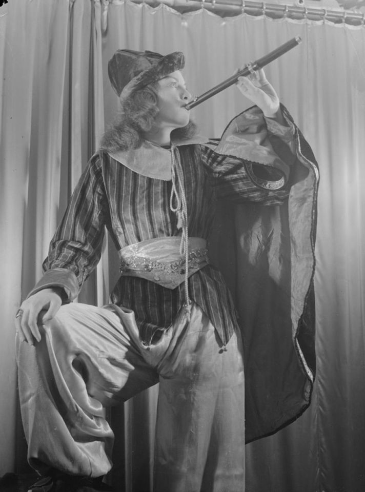 A young costumed girl plays the flute in the children's play The Piper of Hamelin by Robert Browning's poem.